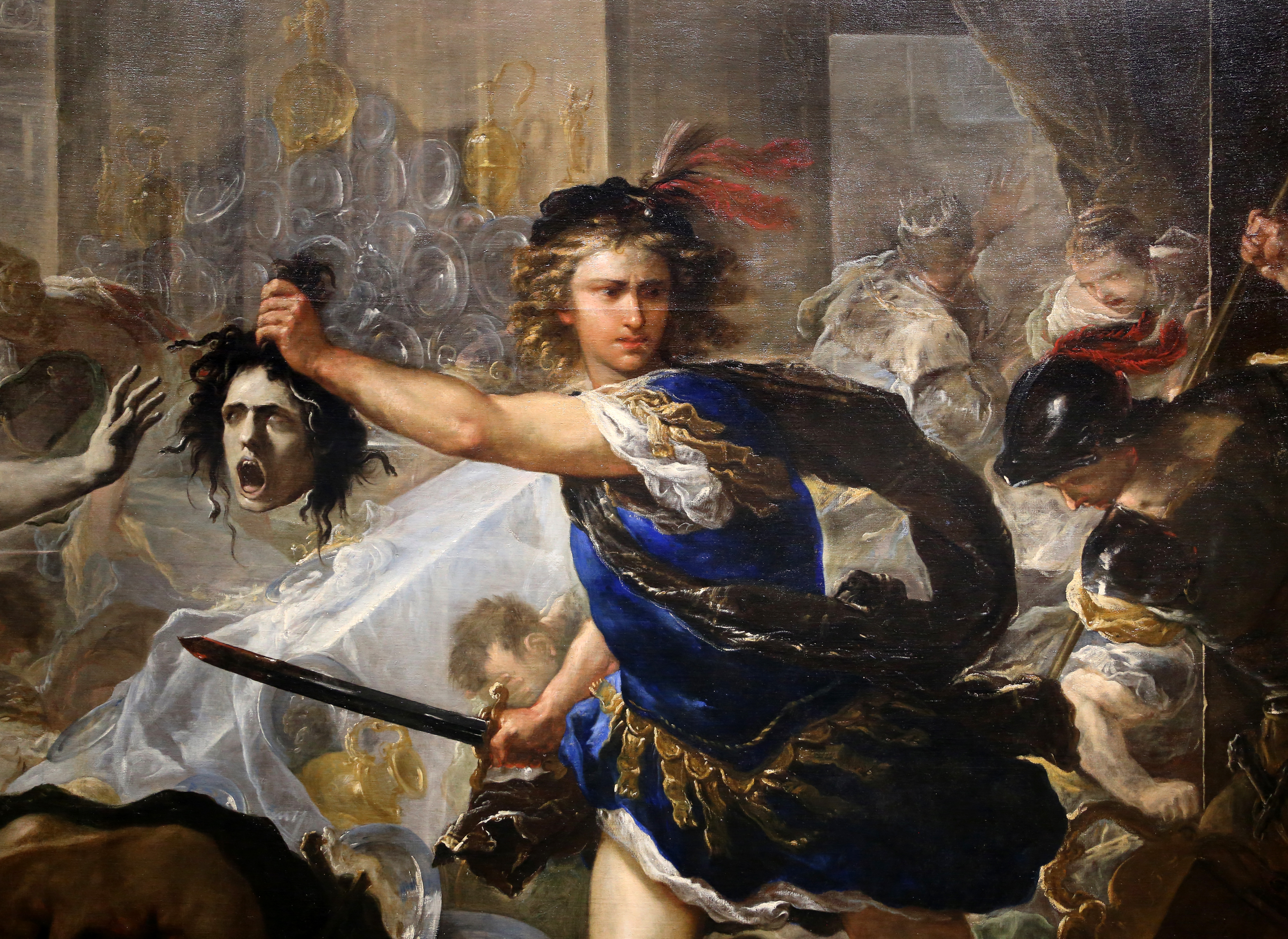 Italian Baroque paintings in the National Gallery, London